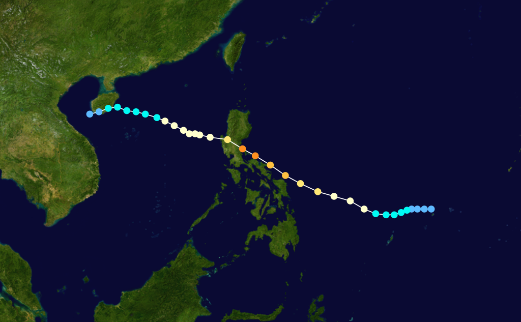 Typhoon Ruby (1988) track. Uses the color scheme from the Saffir-Simpson Hurricane Scale.